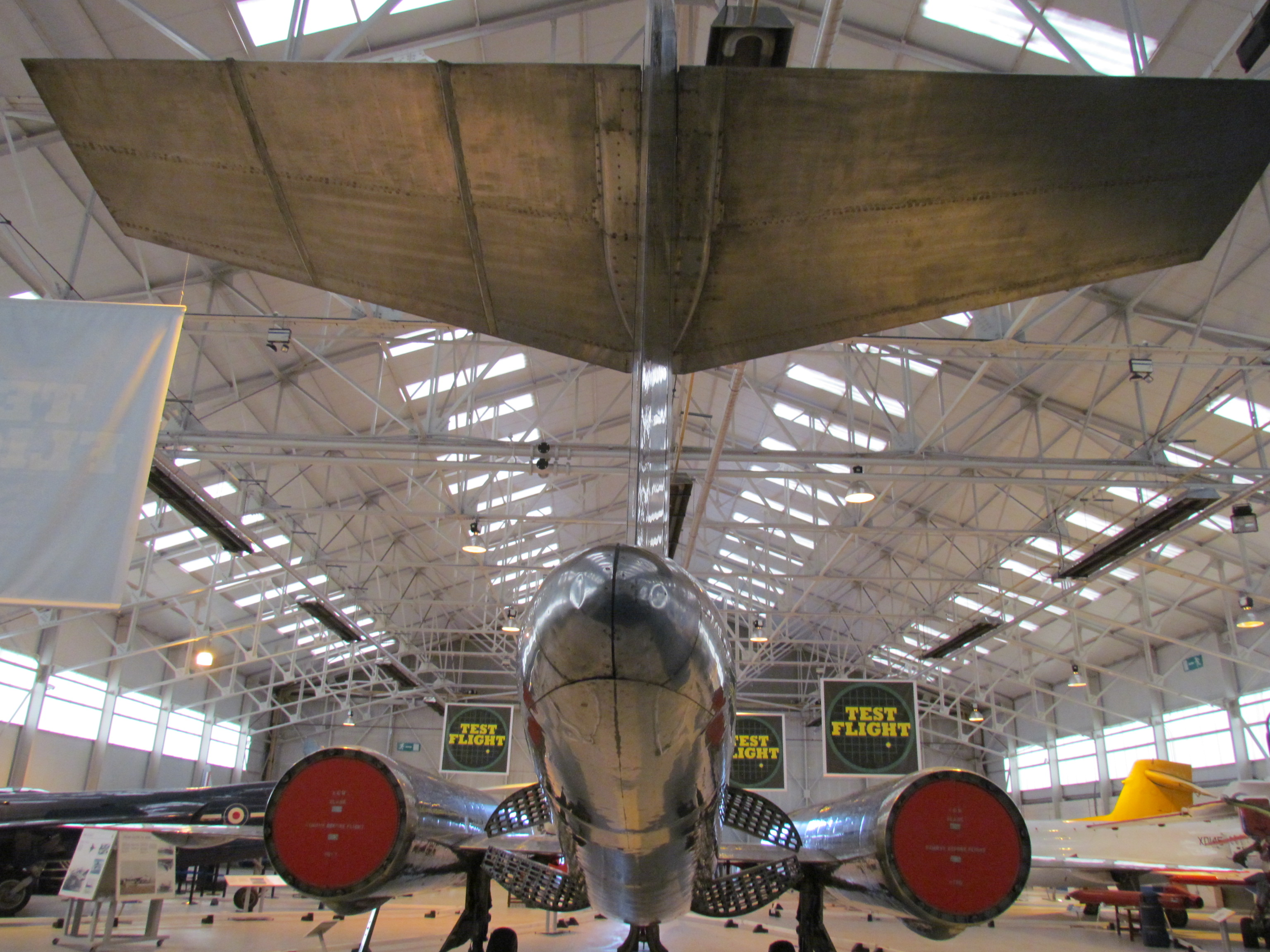 Tailfin & Engines